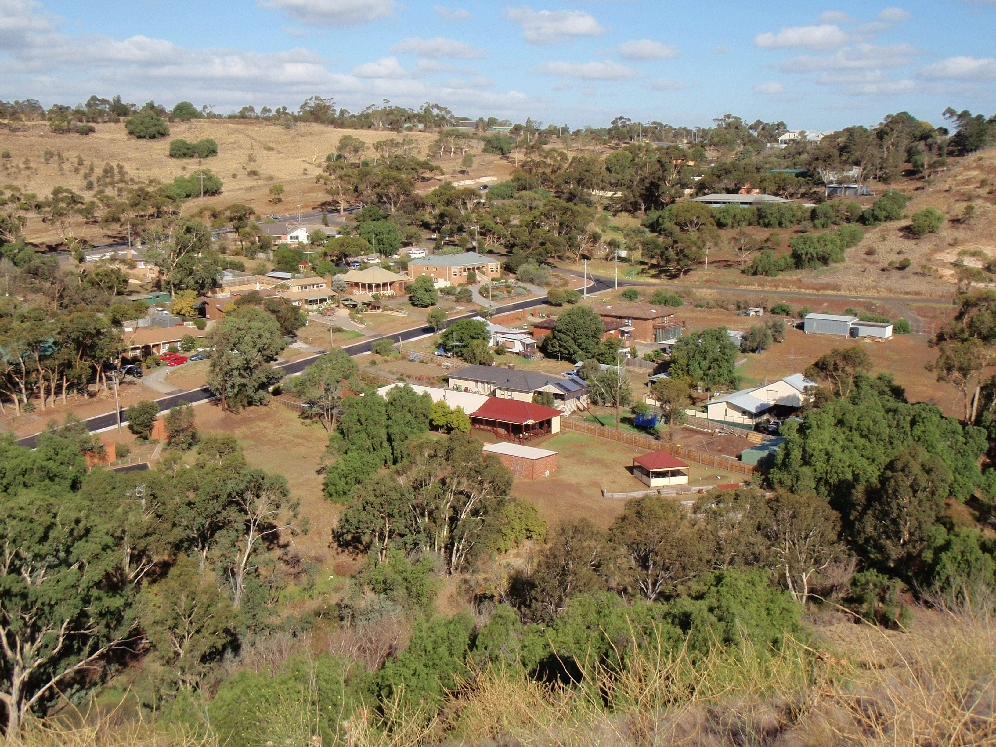 Part of the small town of Bulla, Victoria as viewed from the other (western) side of the Deep Creek valley